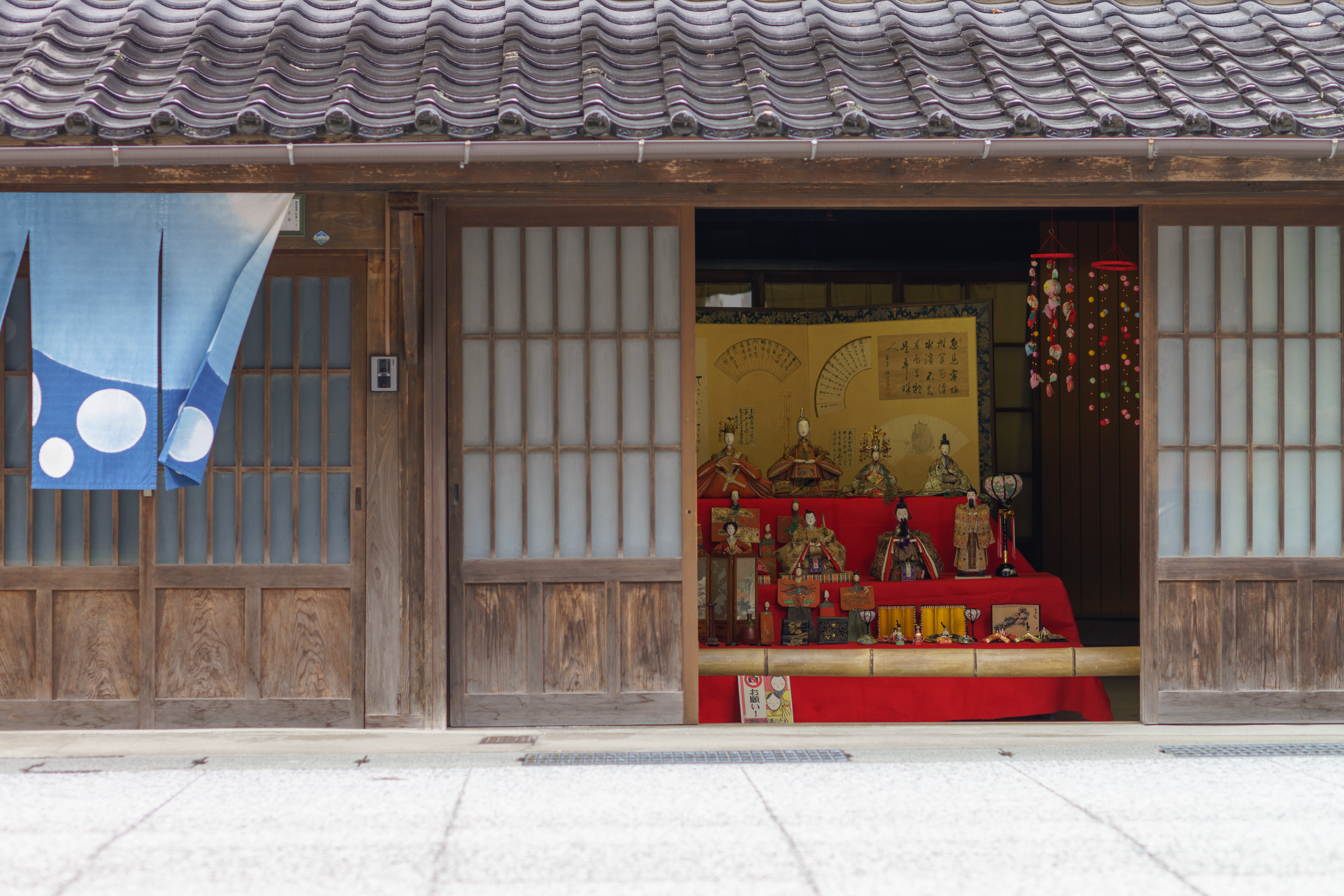 Hina-matsuri “Katsuyama girl’s festival ”